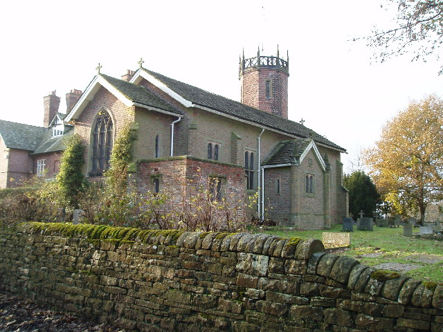 Photograph